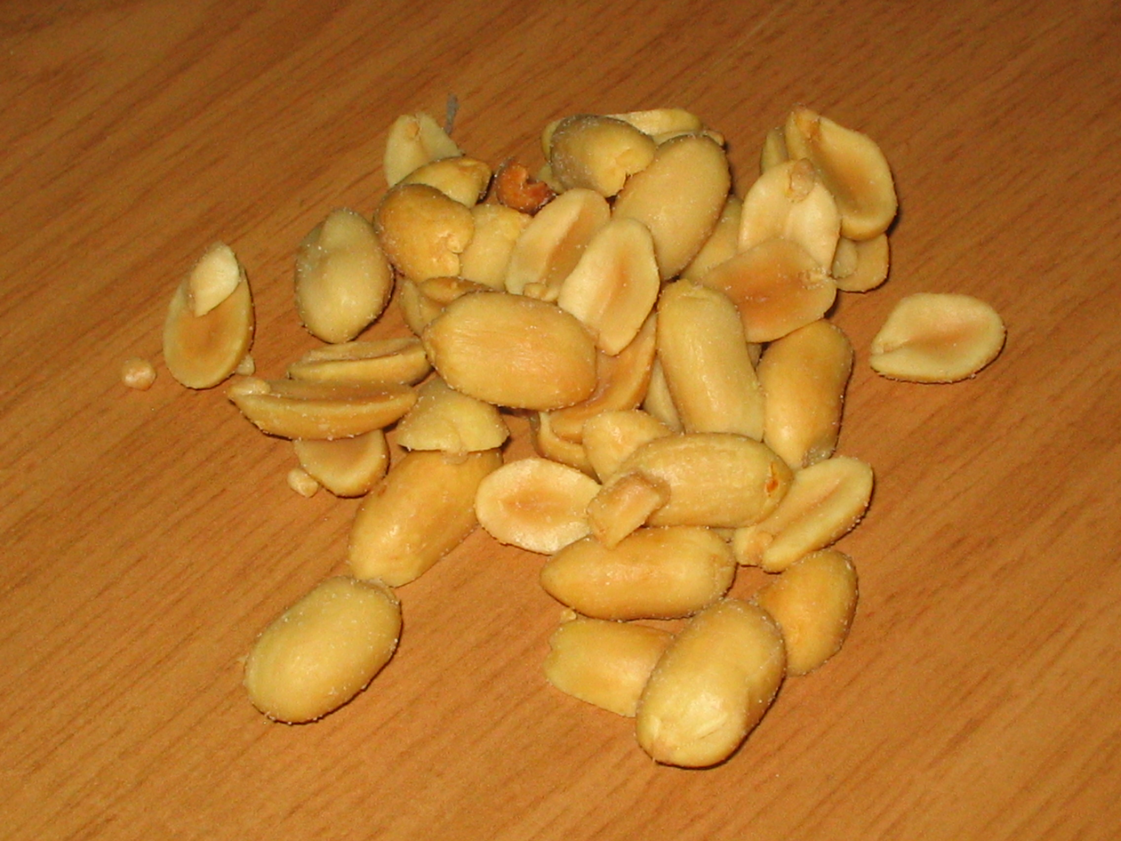 Salted Peanuts.